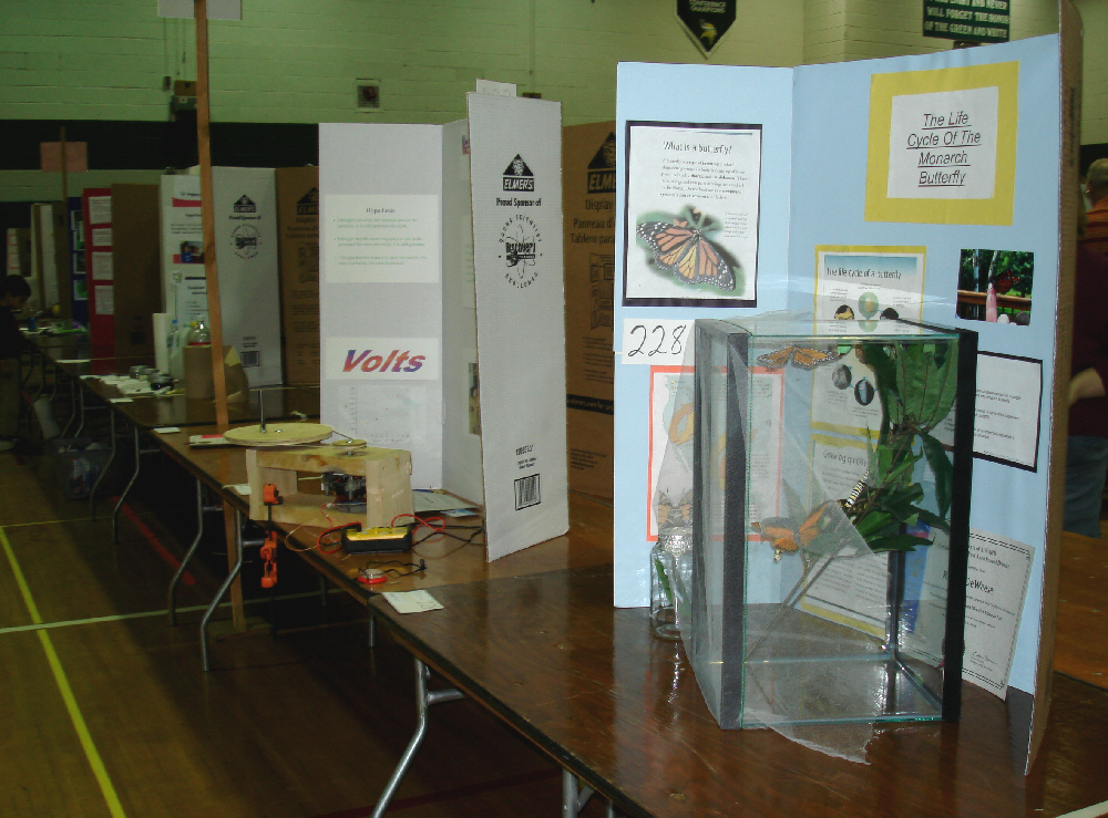 Science fair exhibit (butterflies), probably the exhibit of a first or second grader, local science fair in New York State